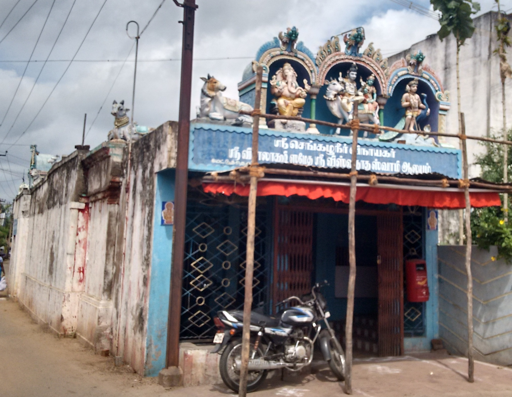 Mettu street viswanathar sengalunir vinayakar மேட்டுத்தெரு விசுவநாதசுவாமி செங்கழுநீர் விநாயகர் கோயில்